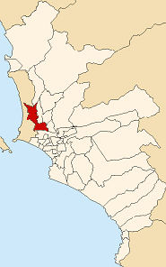 Map of Lima highlighting the San Martín de Porres district in Lima.